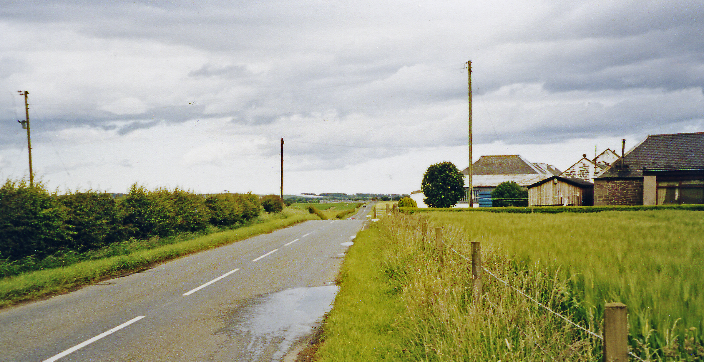 Site of Arbirlot Halt on Arbroath road, 2002. View eastward: ex-Caledonian & NBR (Dundee & Arbroath Joint) branch from Elliot Junction (to right) to Carmyllie (to left). The Halt had been on the left and had closed when passenger traffic ceased from 1/12/29, the whole branch being closed on 24/5/65.